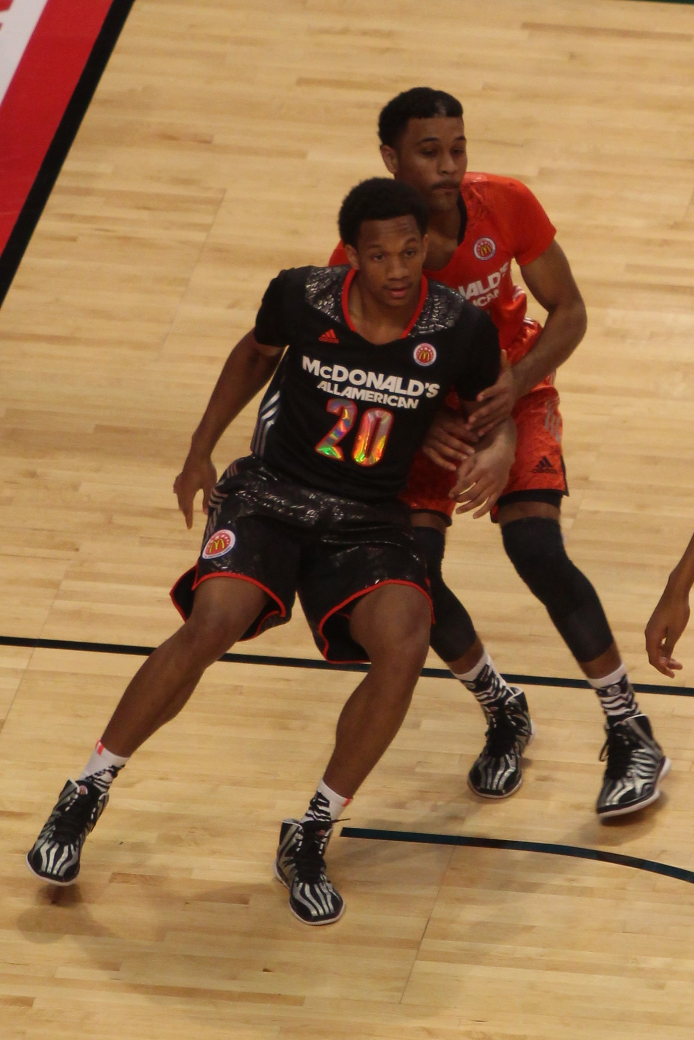 Rashad Vaughn fights for position with James Blackmon in the w:2014 McDonald's All-American Boys Game